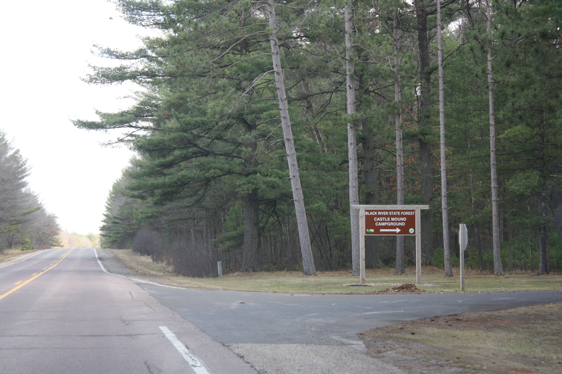 The sign at the entrance to the Black River State Forest.